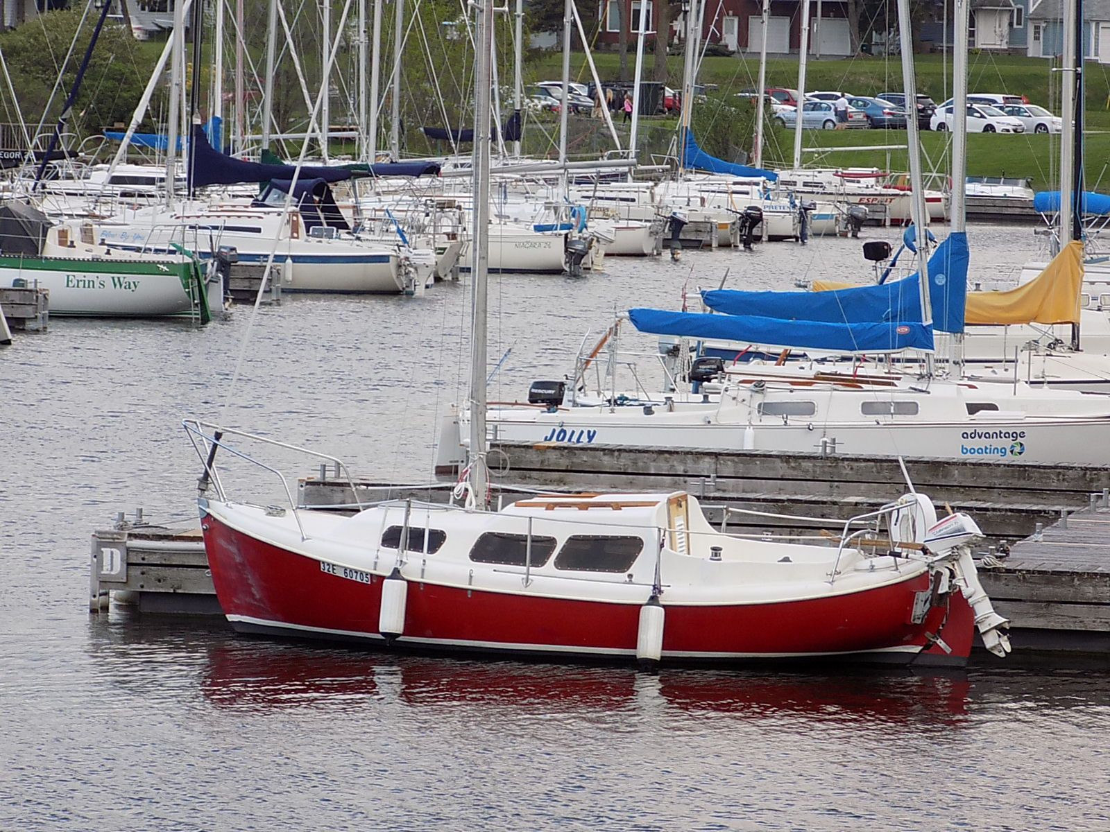 A Halman 20 sailboat named Red Pepper.